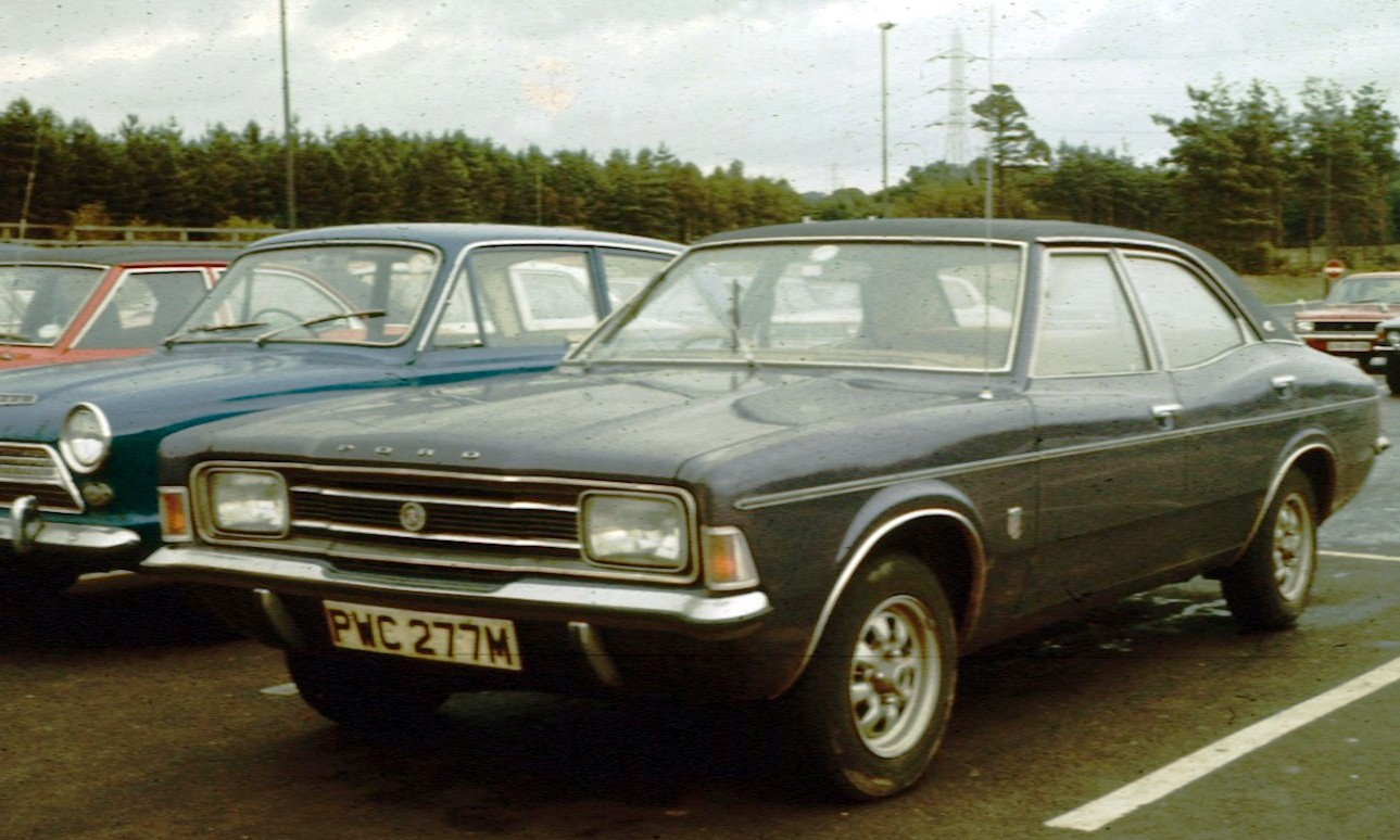 Ford Cortina 2000E in a car park in England. This Mark III Cortina is parked beside a pre facelift Mark I Cortina, identifiable by its rounded sidelights and (if you could read it which here you can't) the name 'Consul' on the top of the bonnet / hood.